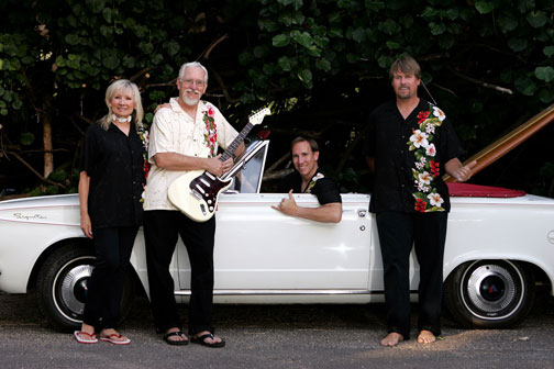 Bob Berryhill of the Surfaris.